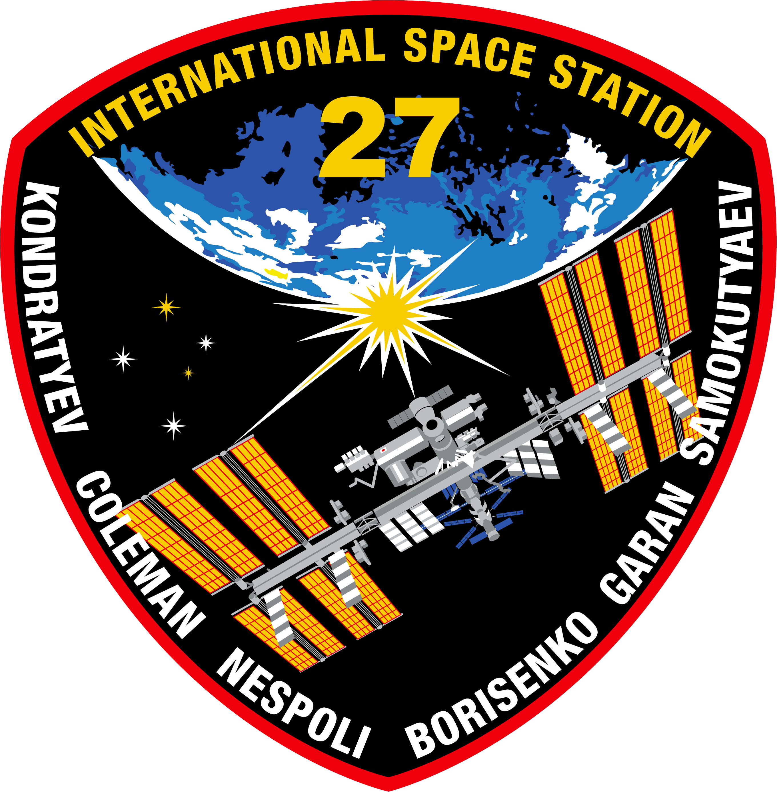 The Expedition 27 patch depicts the International Space Station (ISS) prominently orbiting Earth, continuing its mission for science, technology and education. The ISS is an ever-present reminder of the cooperation between the United States, Russia, Japan, Canada, and the European Space Agency (ESA) – and of the scientific, technical, and cultural achievements that have resulted from that unique teamwork. The ISS is shown in its completed status with the latest addition of the Alpha Magnetic Spectrometer (AMS), and with two resupply vehicles docked at each end of the station. The Southern Cross Constellation is also show in the foreground and its five stars, along with the sun, symbolize the six international crew members that live and work on the space station. The Southern Cross is one of the smallest modern constellations, and also one of the most distinctive. It has cultural significance all over the world and inspires teams to push the boundaries of their worlds, both in space and on the ground.